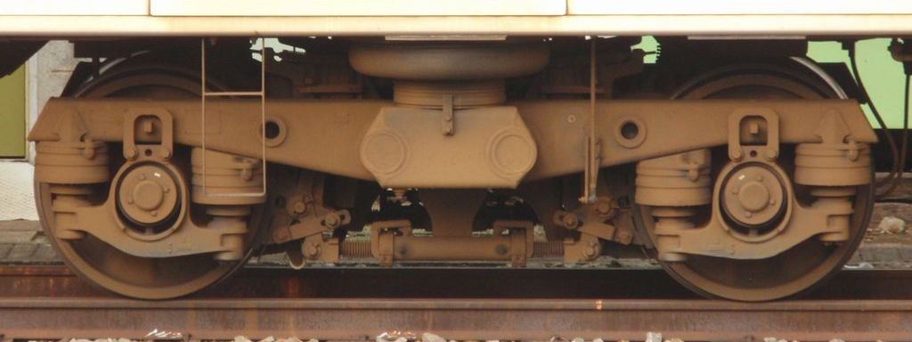 Bogie Truck DT50D of East Japan Railway type 205.